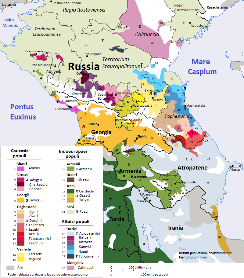 Map of the ethno-linguistic groups in the Caucasus region